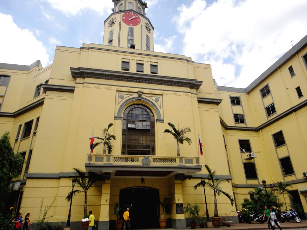 Manila City Hall, Philippines